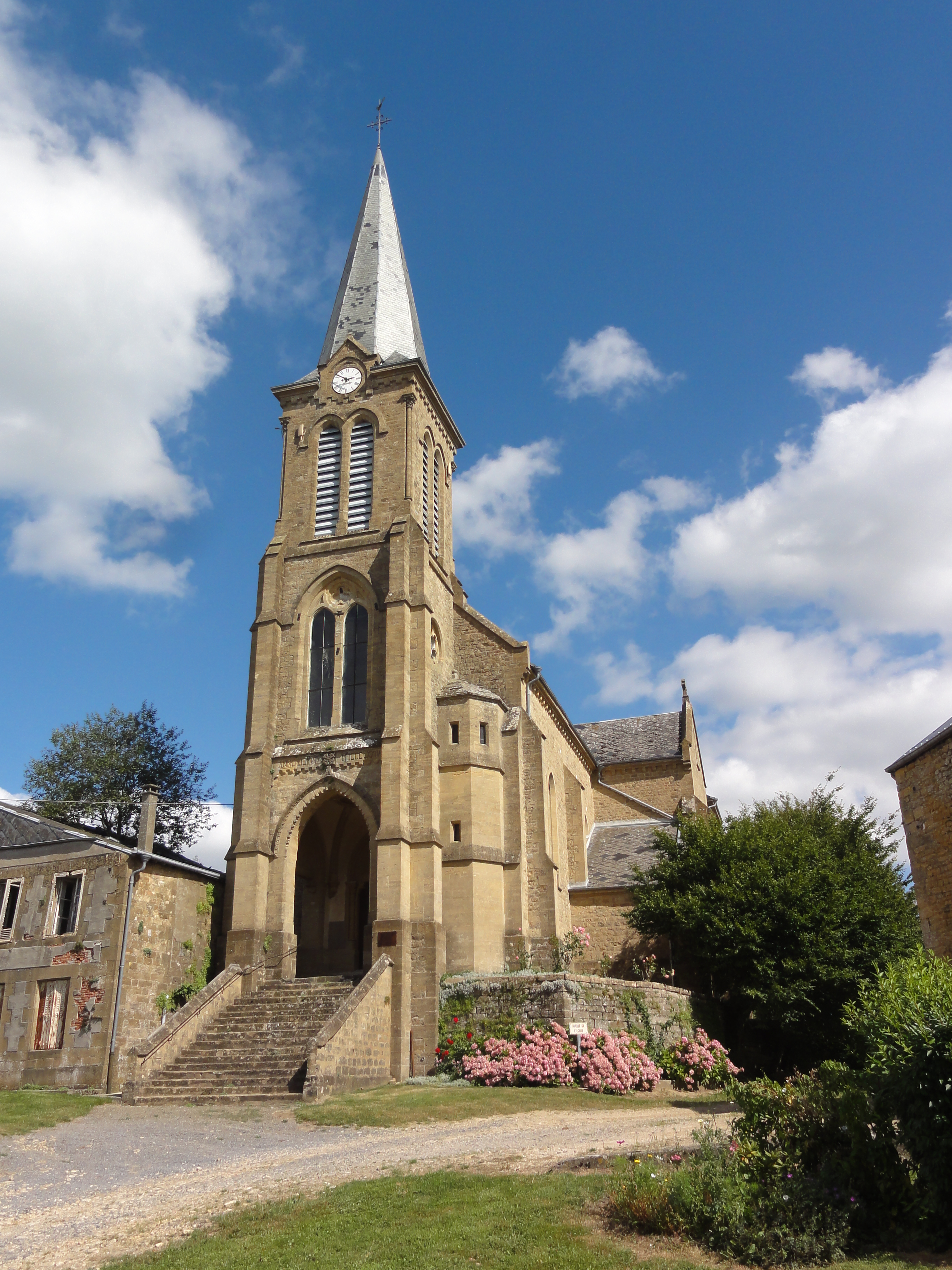 Blombay (Ardennes) église